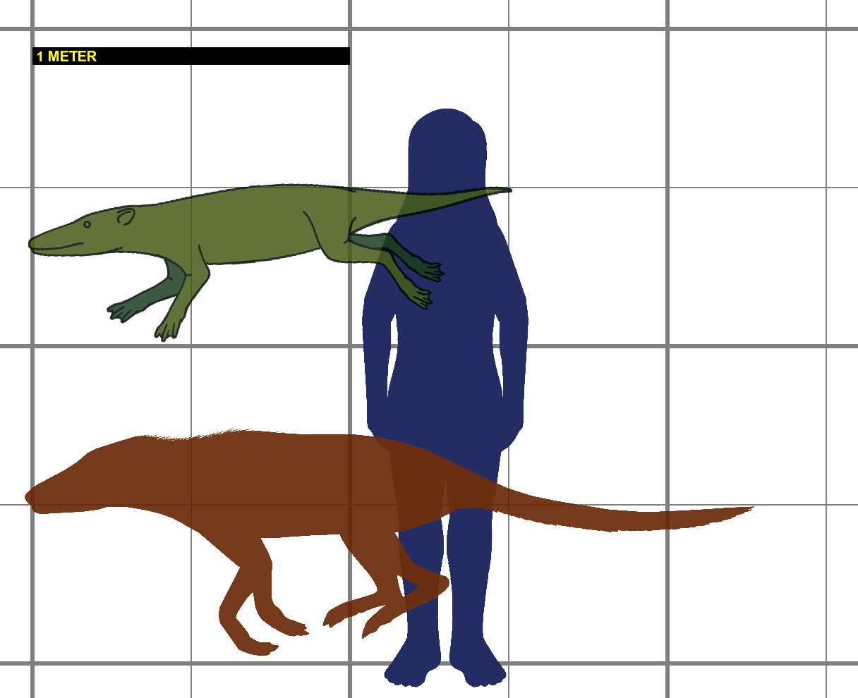 Size of the extinct mammal Pakicetus, compared to a human.